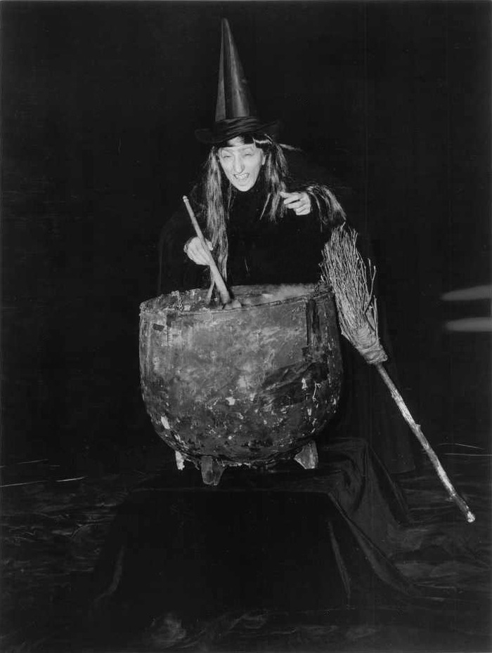 Publicity photo of American character actress, Margaret Hamilton promoting her guest-starring appearance on "The Weird World of Witchcraft" episode of the ABC television series Discovery '64, which aired on Sunday, October 25, 1964.